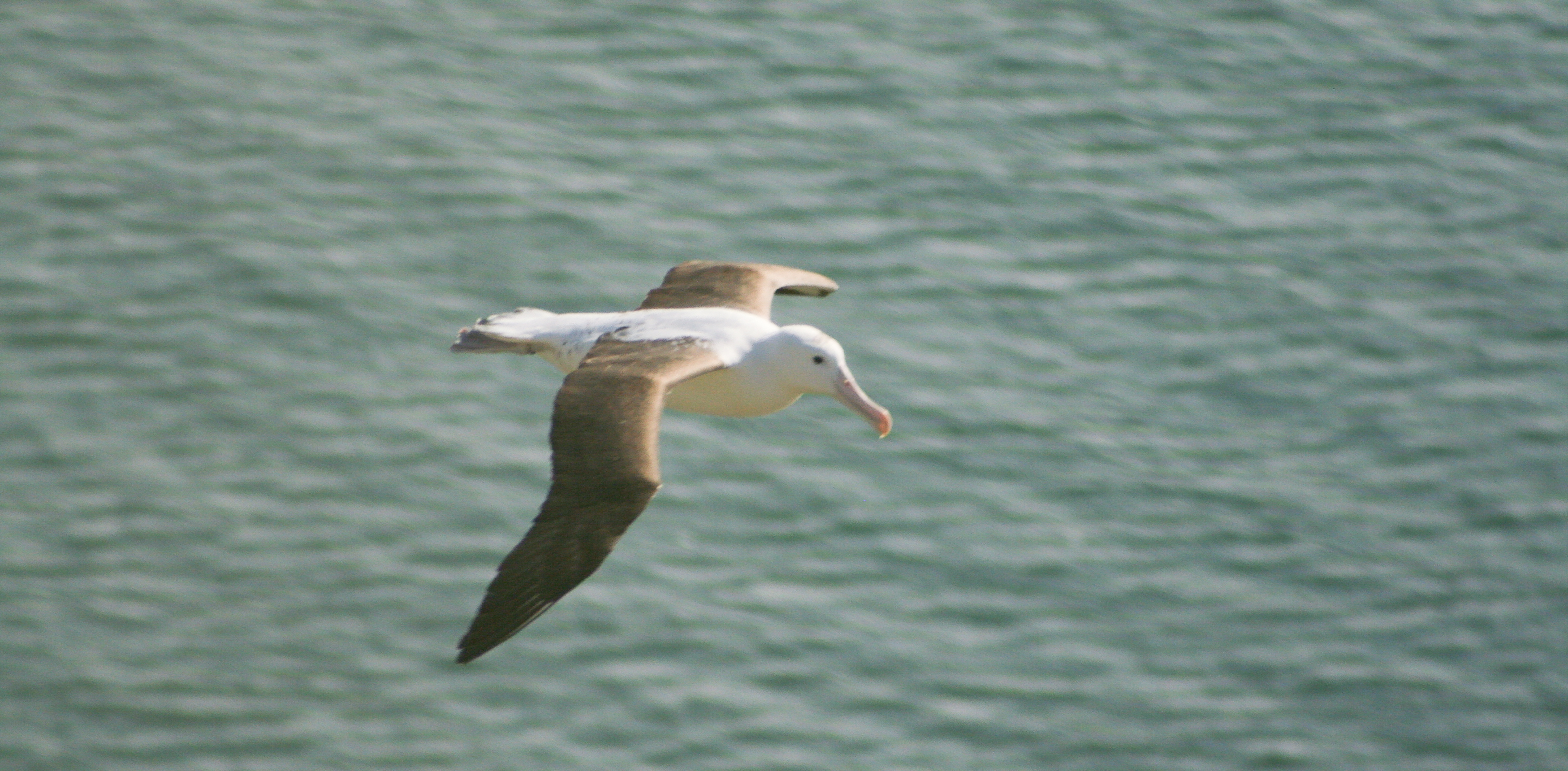 Royal Albatross (Diomedea sanfordi) in New Zealand